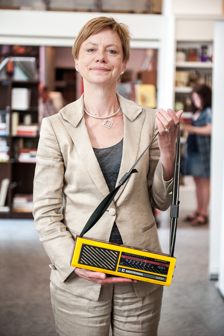 Sarmite Elerte posing with her object that will be digitised at the Europeana 1989 roadshow in Warsaw, Poland.